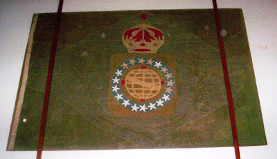 Small Imperial Brazilian flag exhibited at the Carmen de Patagones cathedral.